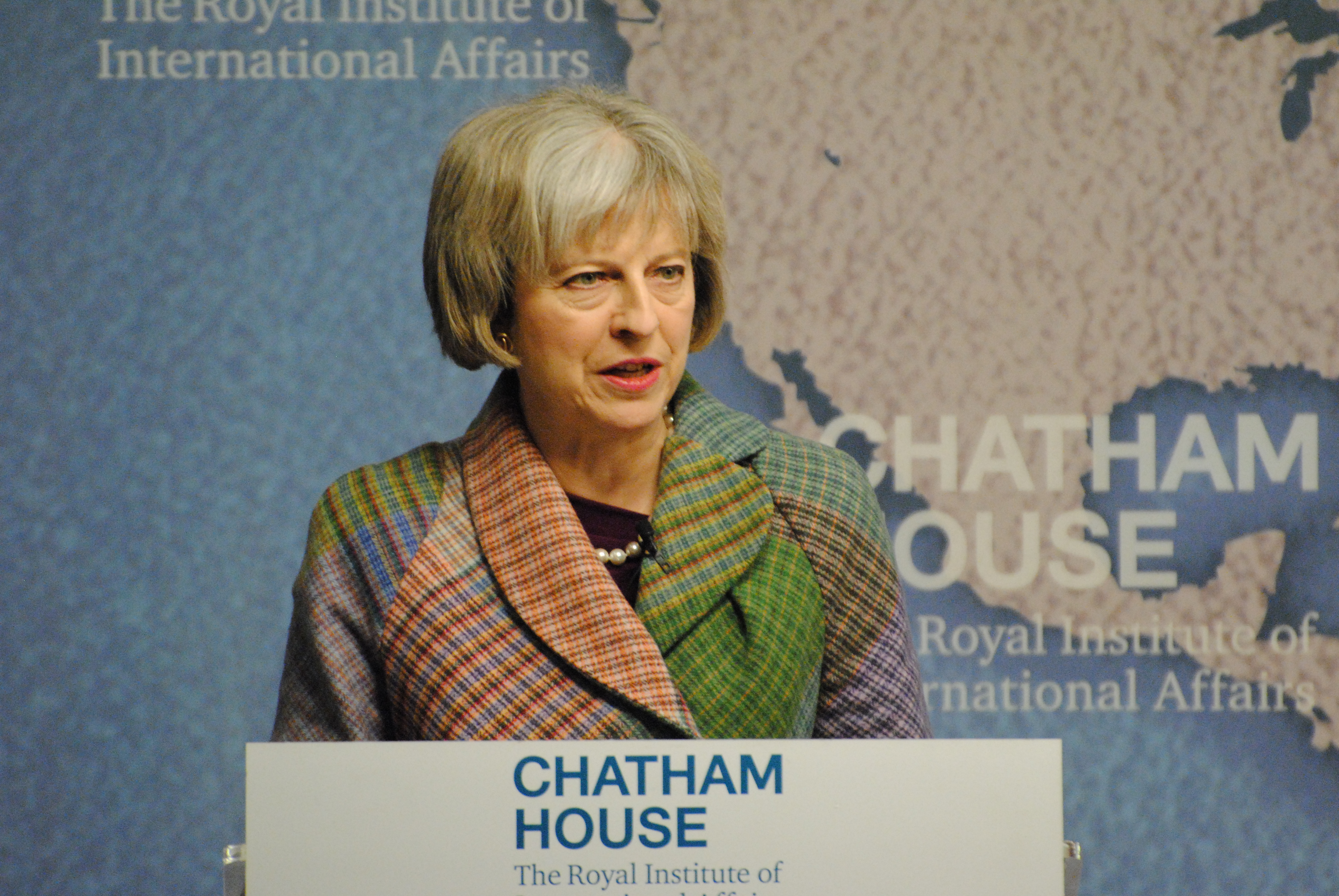 Countering Terrorism: A Global Perspective, 9 December 2015, cht.hm/1PYH54F